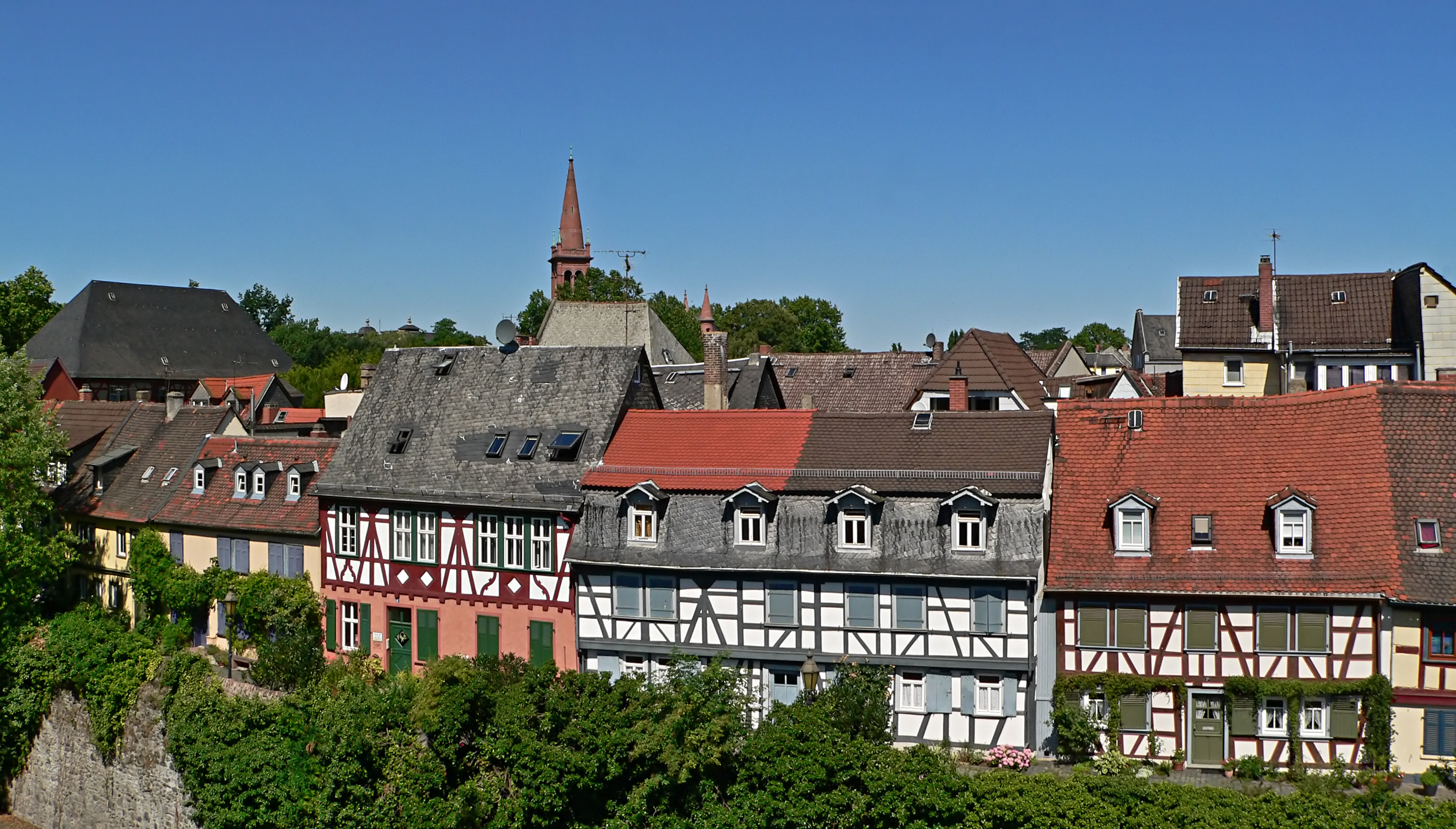 View from Höchst Castle of the Burggraben lane with old half-timbered houses